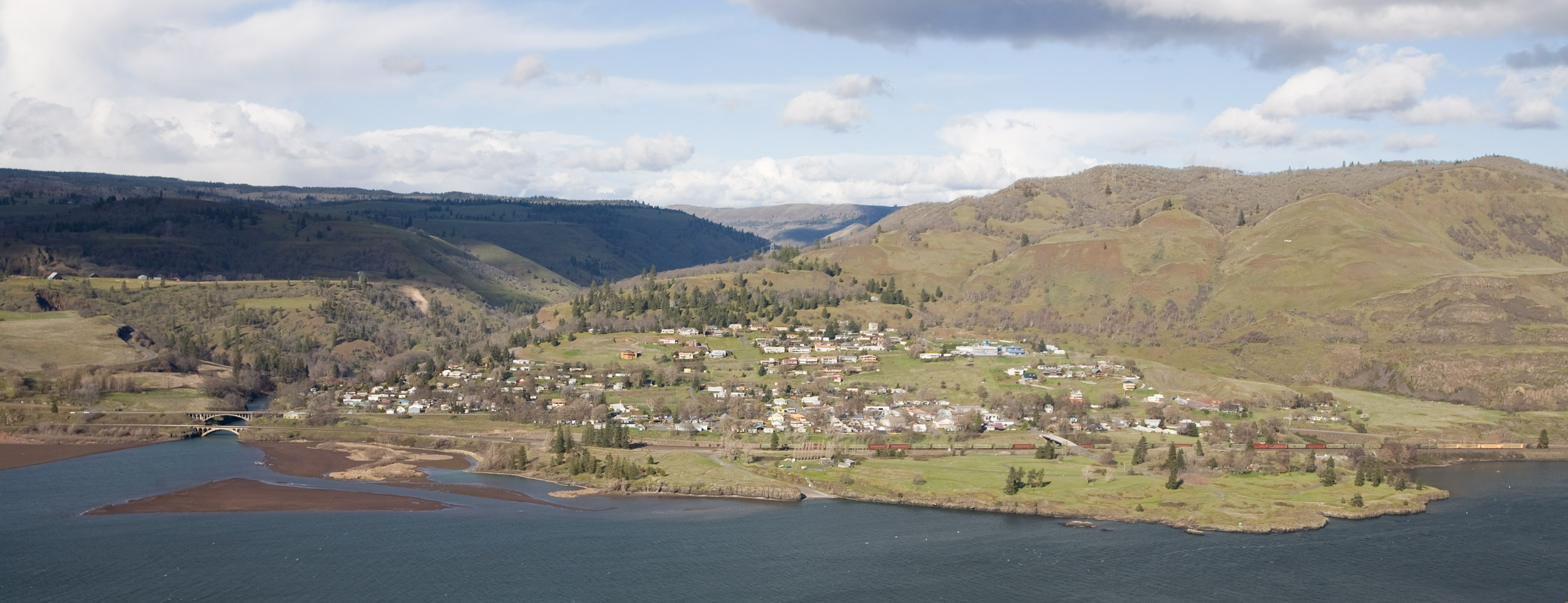 Lyle, Washington from the Mayer State Park Lookout in Oregon. At left is the confluence of the Klickitat and Columbia River.